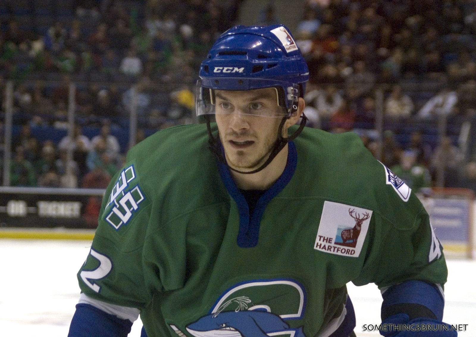 ERI_3161 Providence Bruins vs Connecticut Whale in American Hockey League action at the XL Center in Hartford, Connecticut. This photo was taken by Sarah Connors on January 15, 2011 using a Nikon D200. This photo also appears in sarah_connors' Flickr photostream, and is one of a set of 216 "Providence @ Whale, 1/15/11" Tags: Boston Bruins, Providence Bruins, New York Rangers, Connecticut Whale, NHL, AHL, XL Center, hockey, icehockey, Hartford Wolf Pack